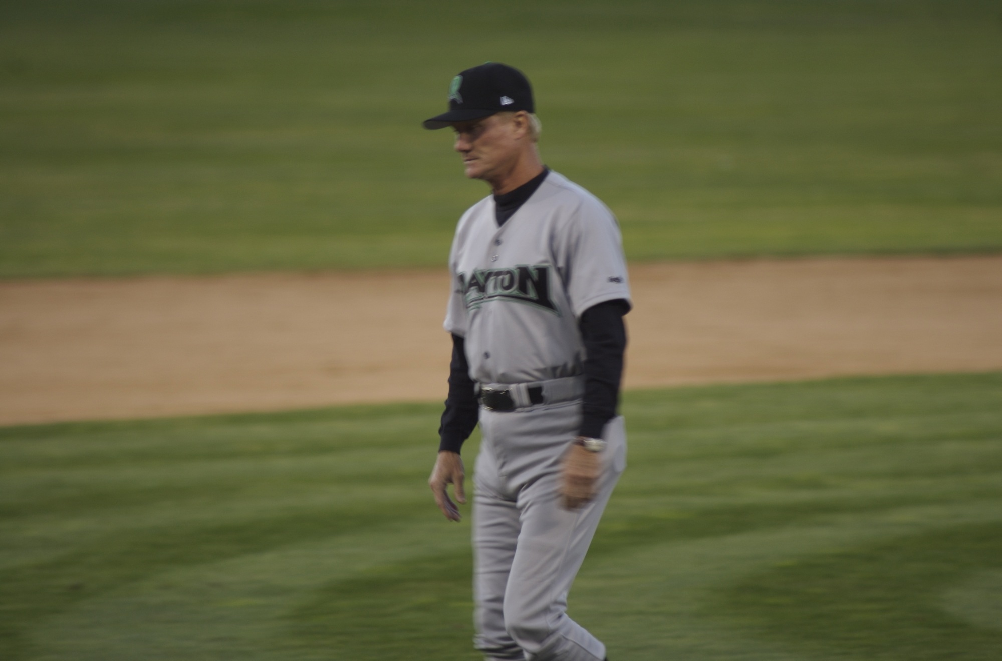 Dayton @ Southwest Michigan 052306